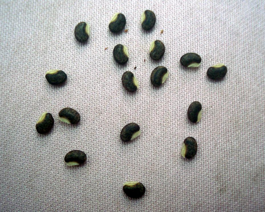 Name : Desmodium gyrans Family : Fabaceae